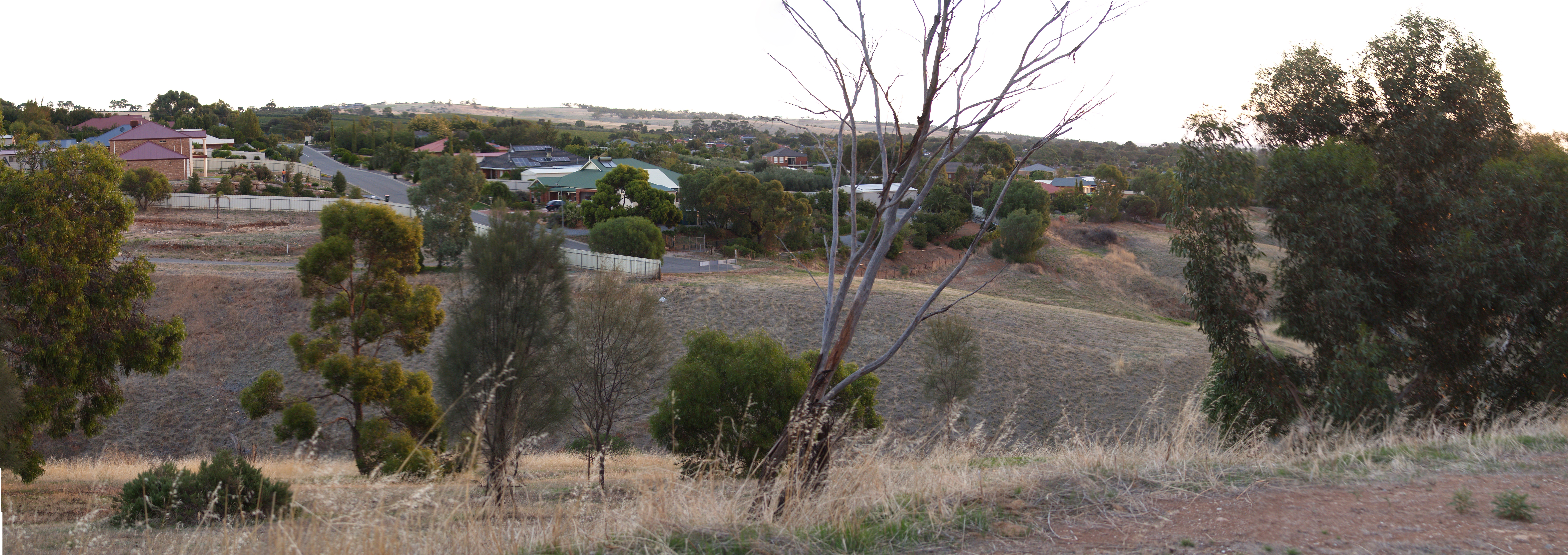 Craigmore, SA